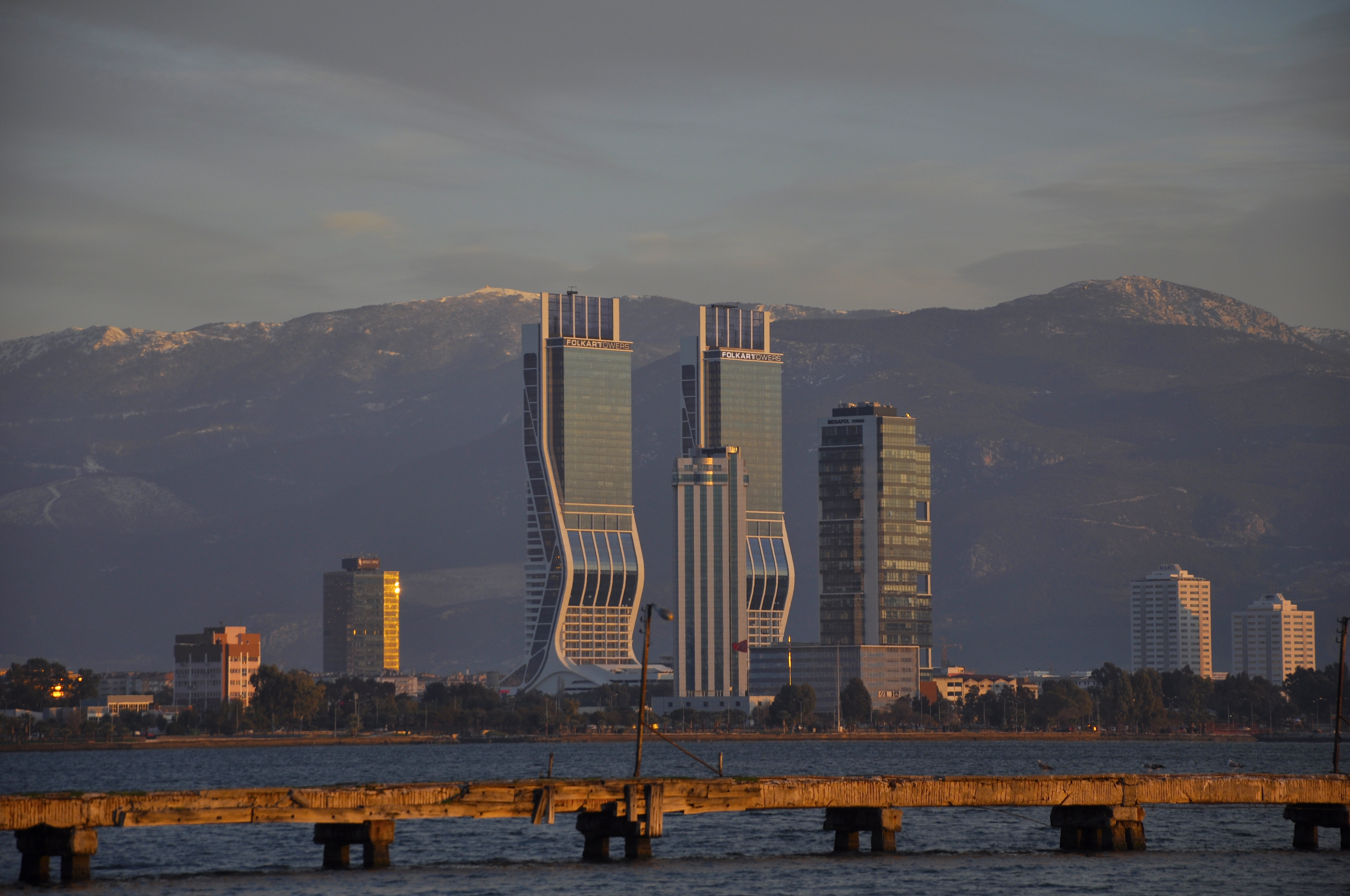 Folkart Towers, Izmir, Turkey.